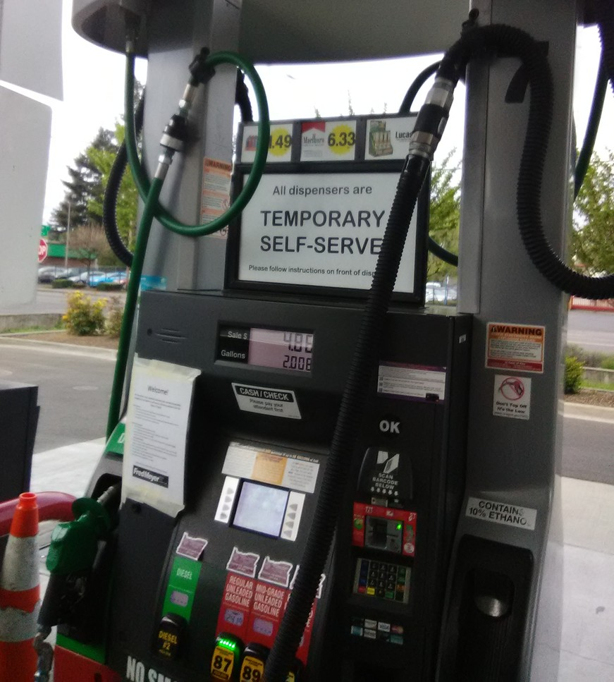 Self-serve temporarily allowed during the COVID-19 pandemic